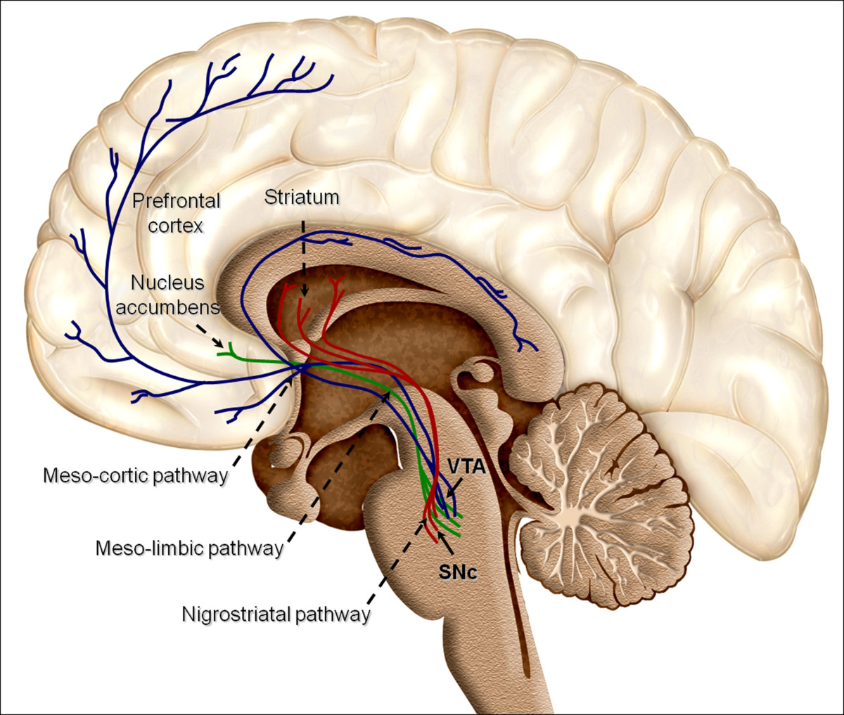 Overview of reward structures in the human brain. Dopaminergic neurons are located in the midbrain structures substantia nigra (SNc) and the ventral tegmental area (VTA). Their axons project to the striatum (caudate nucleus, putamen and ventral striatum including nucleus accumbens), the dorsal and ventral prefrontal cortex. Additional brain structures influenced by reward include the supplementary motor area in the frontal lobe, the rhinal cortex in the temporal lobe, the pallidum and subthalamic nucleus in the basal ganglia, and a few others.